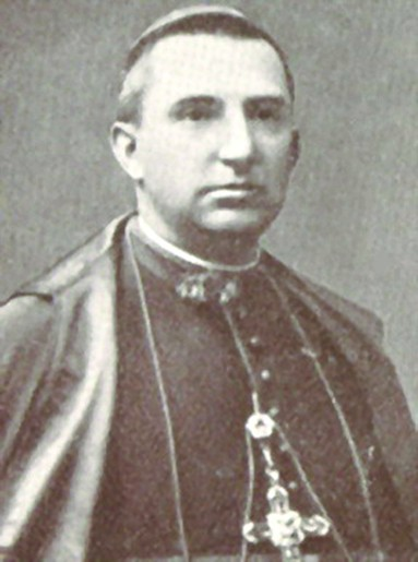 Photography of Bishop Cruz Laplana.